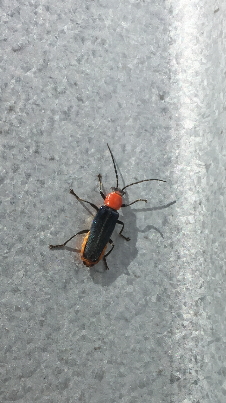 Chauliognathus tricolor found in Melbourne Australia